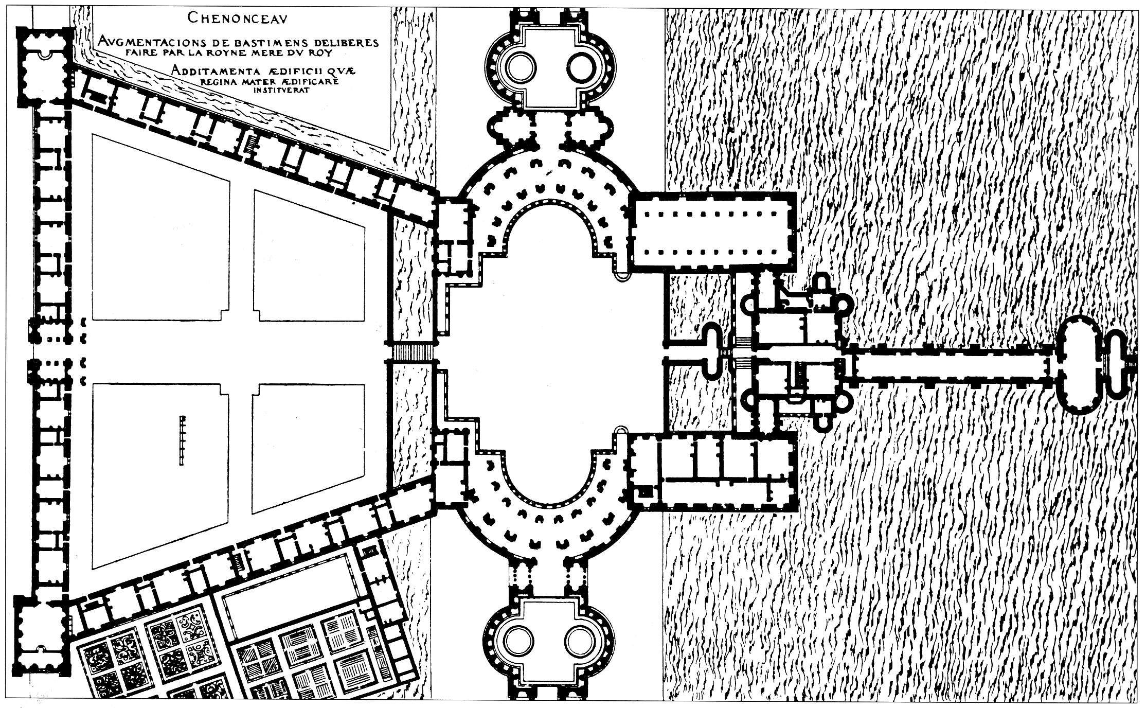 Floor plan of the Château de Chenonceau with its gardens, as planned but not realised by Catherine de' Medici